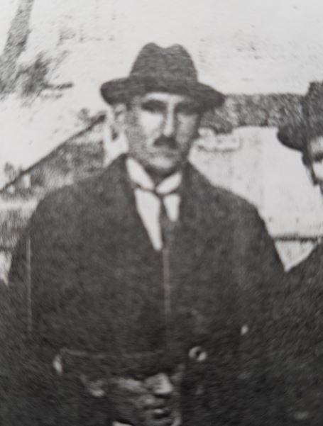 Novica Radović, one of the leaders of the Greens.